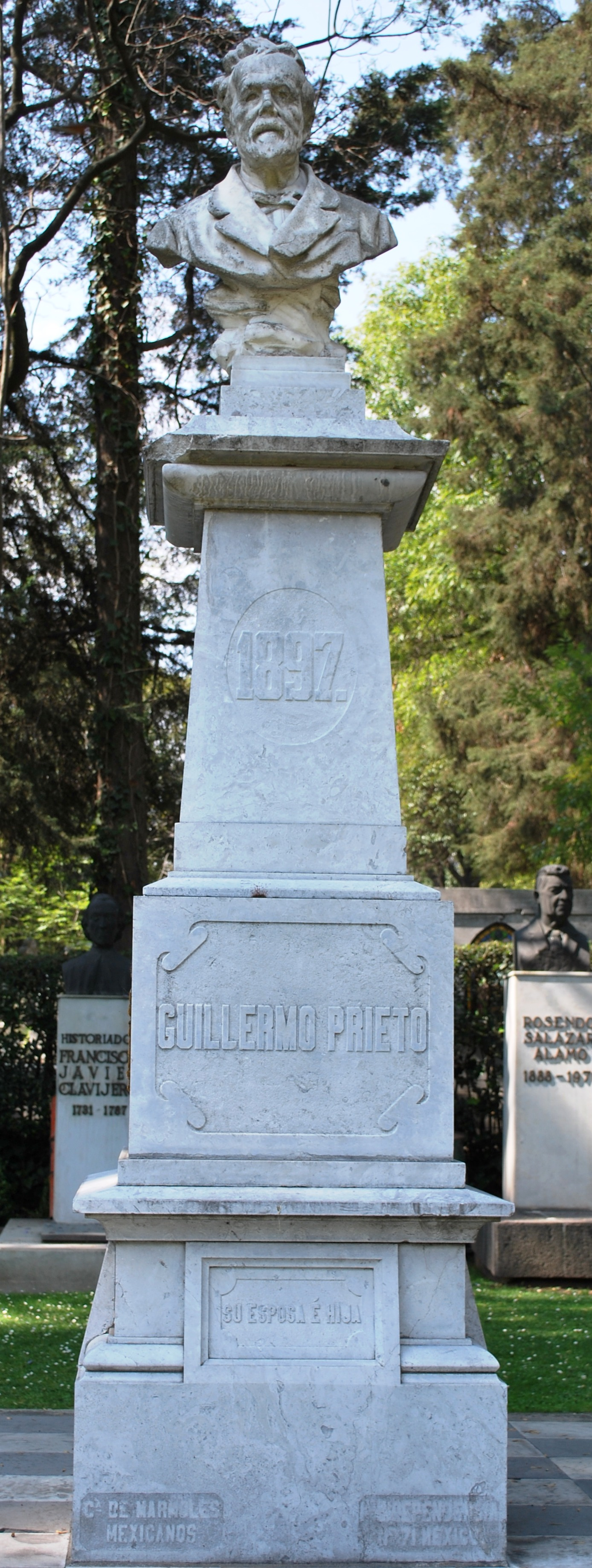 Tomb of Guillermo Prieto in the Panteón Civil de Dolores Cemetery in Mexico City